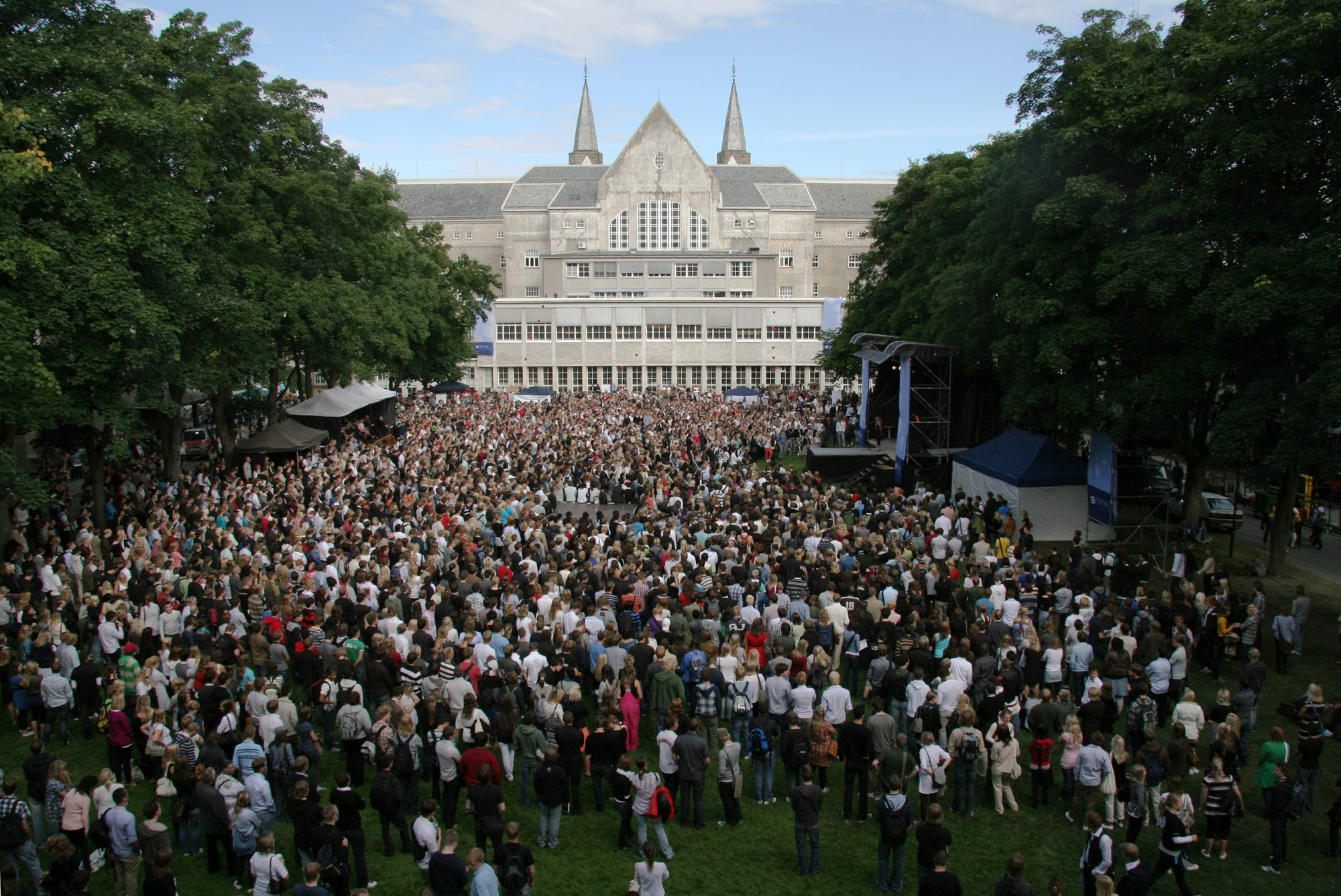 Matriculation day at NTNU, The Norwegian University of Science and Technology, August 2008, at Campus NTNU Gløshaugen, Trondheim